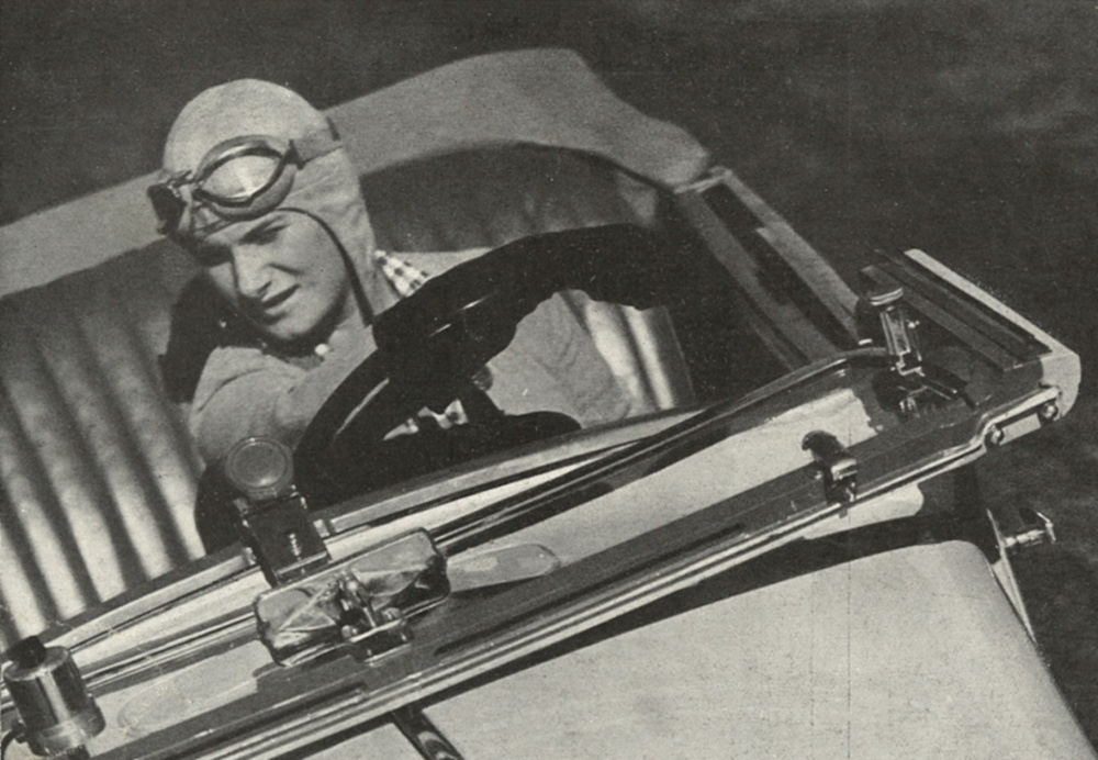 French pilot Hélène Boucher is promoting the Renault Vivasport. Advertisement of the Renault S.A. - detail